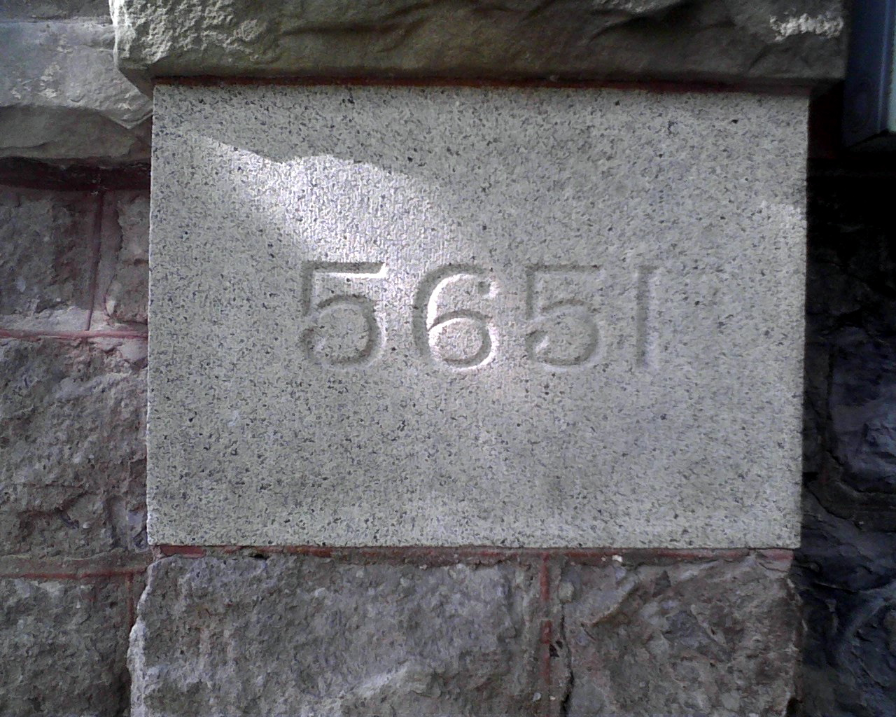 Cornerstone showing date on Jewish Calendar, Temple Emanu-El, Building on National Register of Historic Places, Helena, Montana. Now, ironically, houses the administrative offices of the Helena Diocese of the Roman Catholic Church